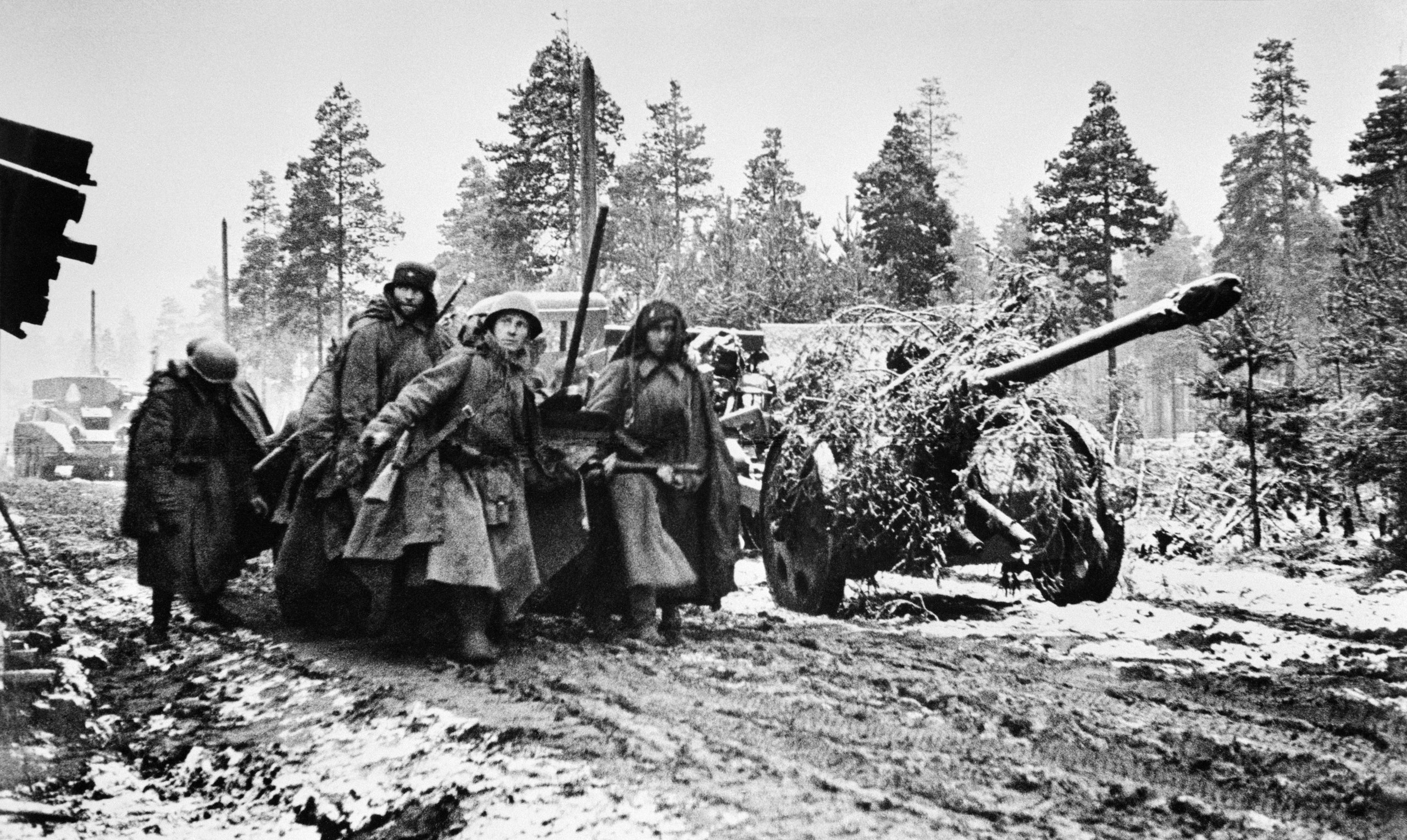 “Homecoming”. Soldiers pulling camouflaged artillery on muddy roads. The Leningrad Front.